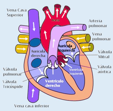 Heart showing the blood flow